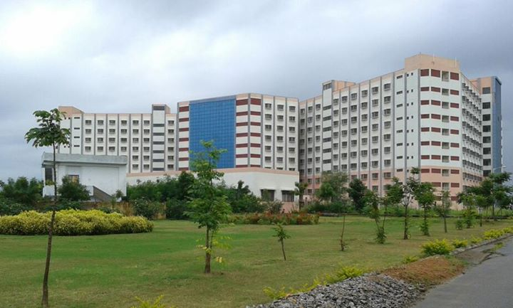 Ultramega Hostel for freshmen in NIT Warangal